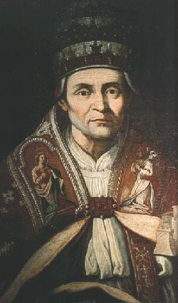 painting of the pope celestinus V of 1294